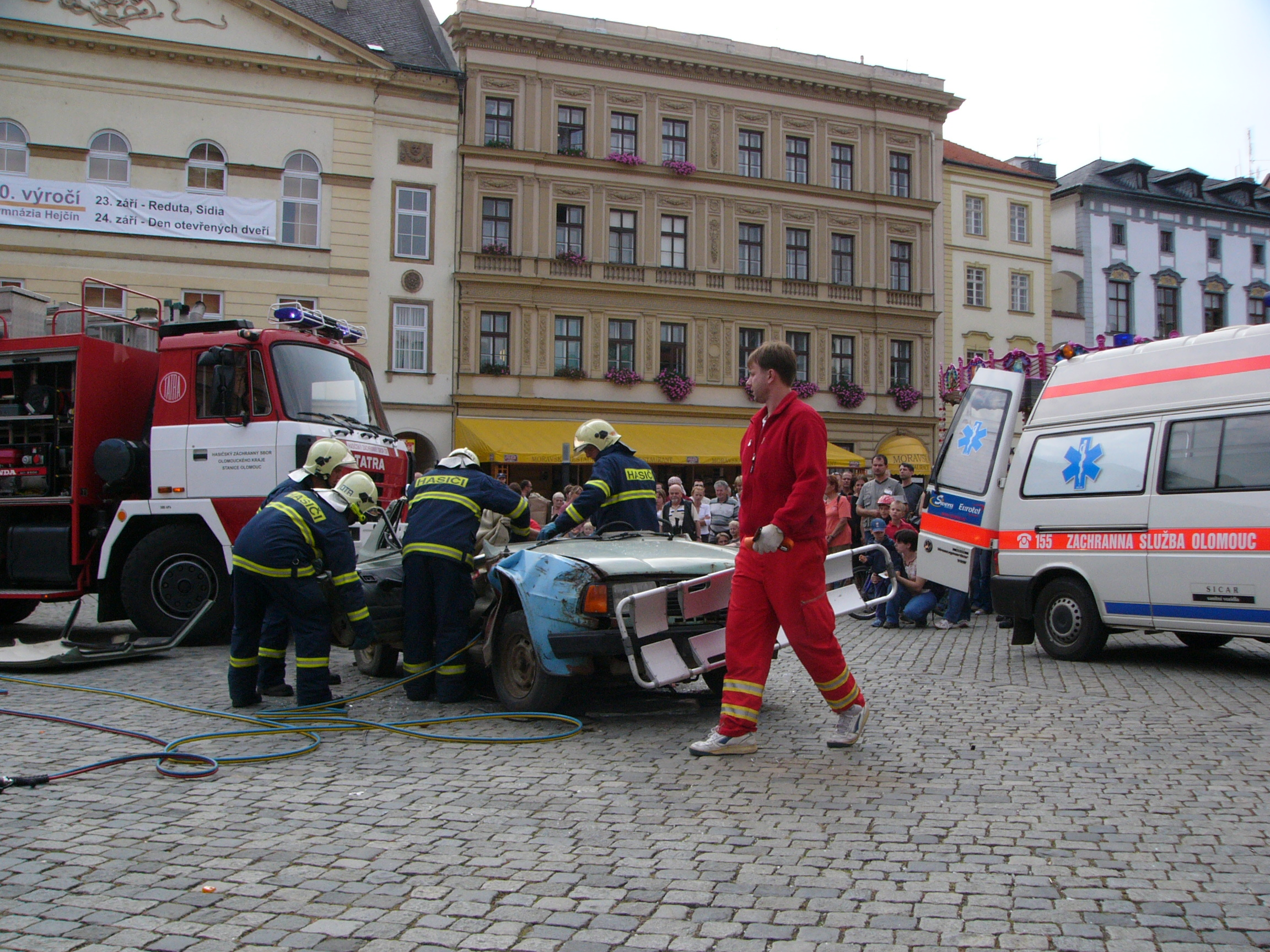 Emergency service in The Czech Republic. Firemen and Emergency medical services are getting injured person from the car - practice show for public.